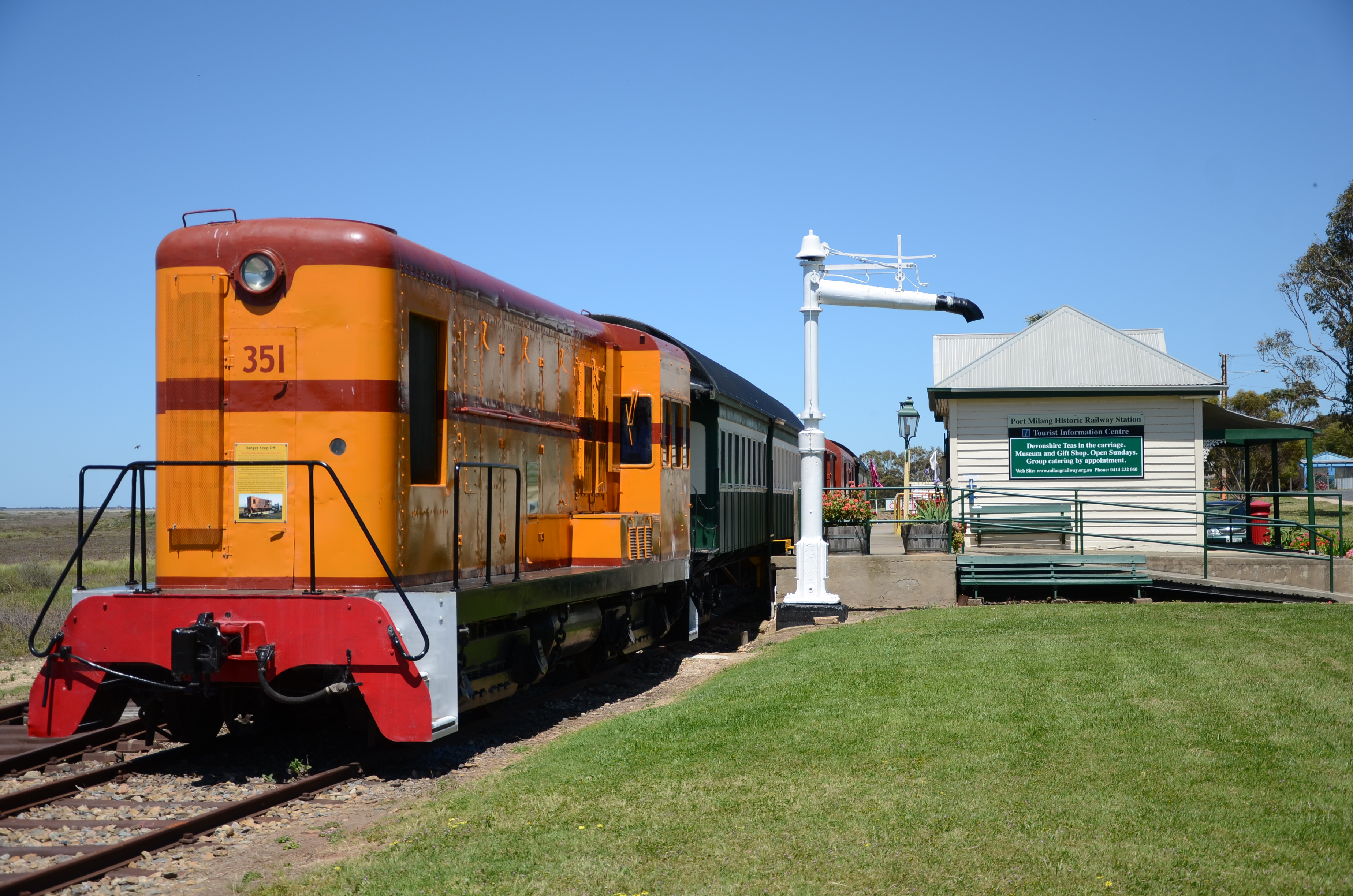 Preserved former SAR diesel loco no 351, rolling stock and water column next to the Milang Historic Railway Station, South Australia